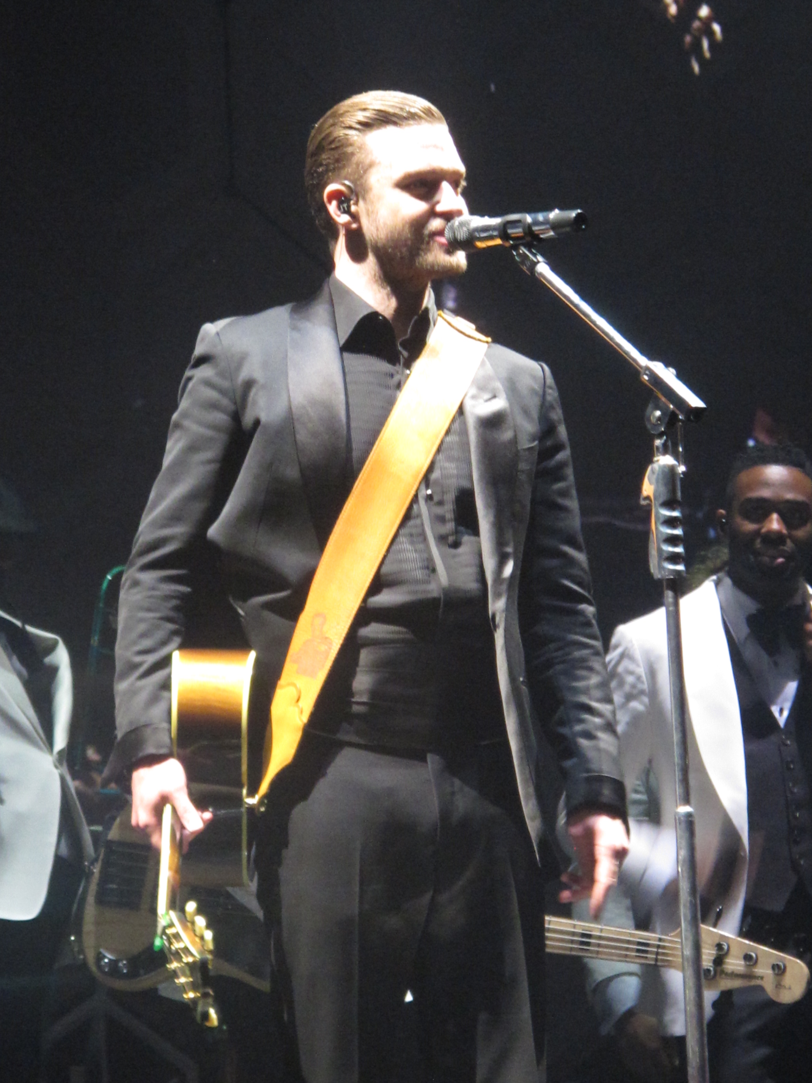 Justin Timberlake 2014 February